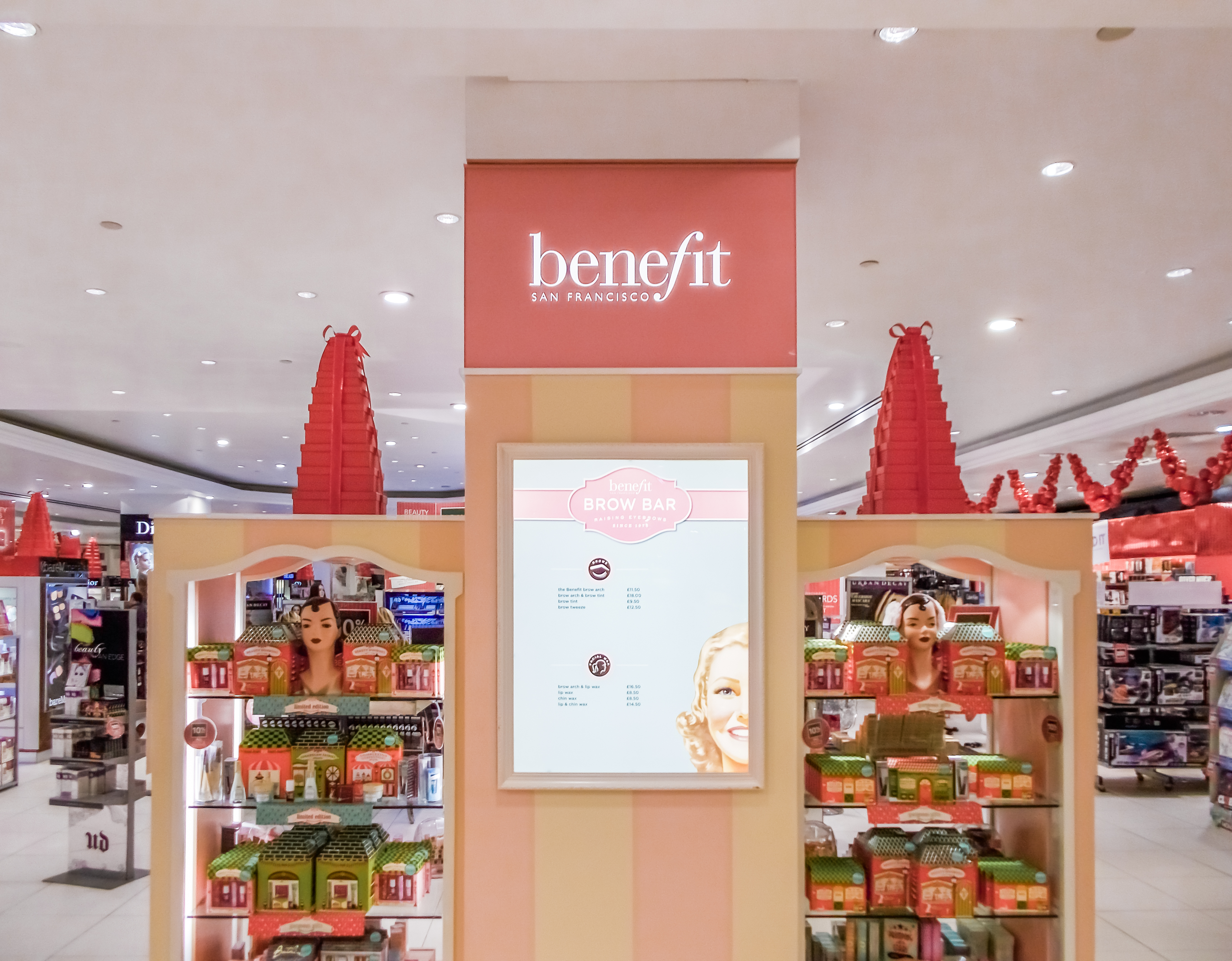 Benefit, Debenhams, Sutton, Surrey, London